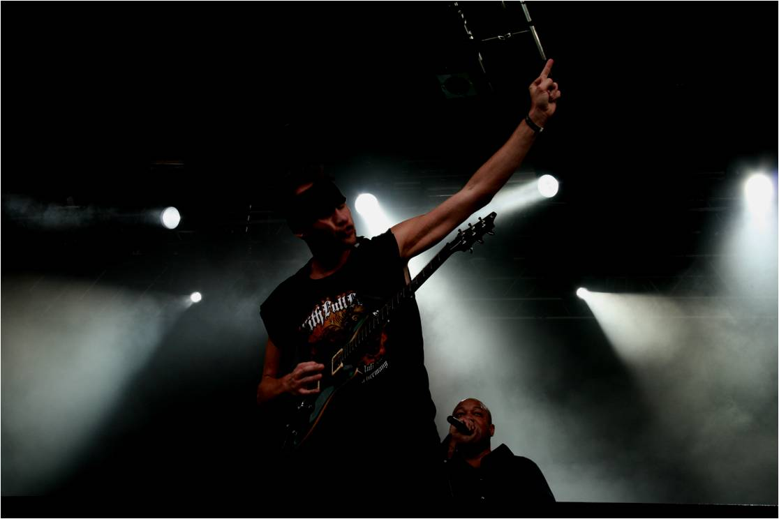 Killswitch at Norway Rock Festival 2010